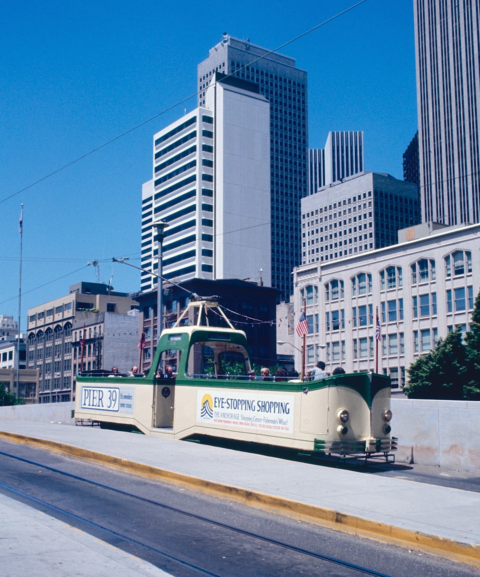 During the first San Francisco Historic Trolley Festival, in 1983, open-top Blackpool "boat" tram 226 is laying over at the Transbay Terminal, the east end of the Trolley Festival's route.